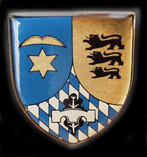 Staff & HQ Company Engineers Brigade 50